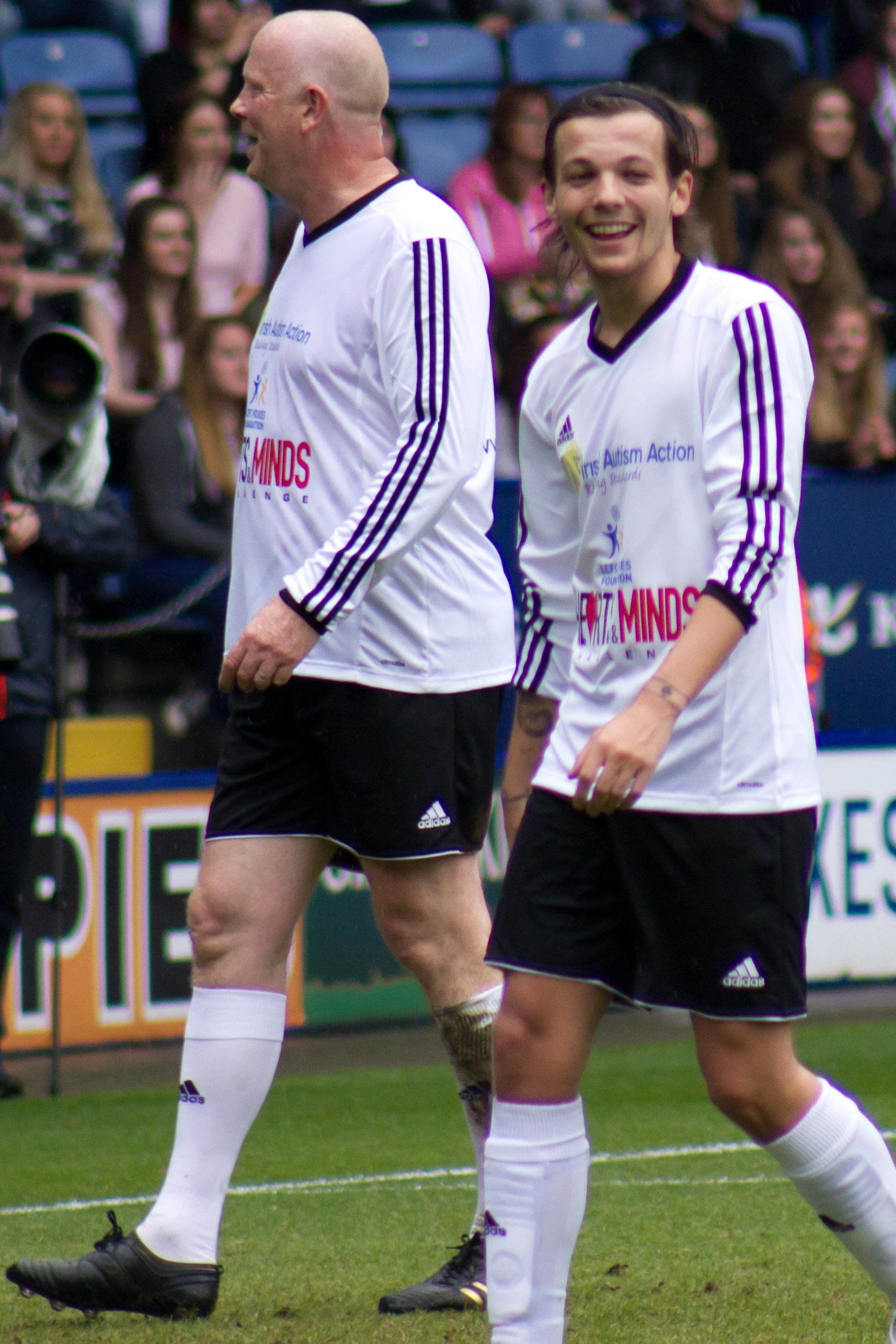 Louis Tomlinson at Niall Horan Charity Football Challenge